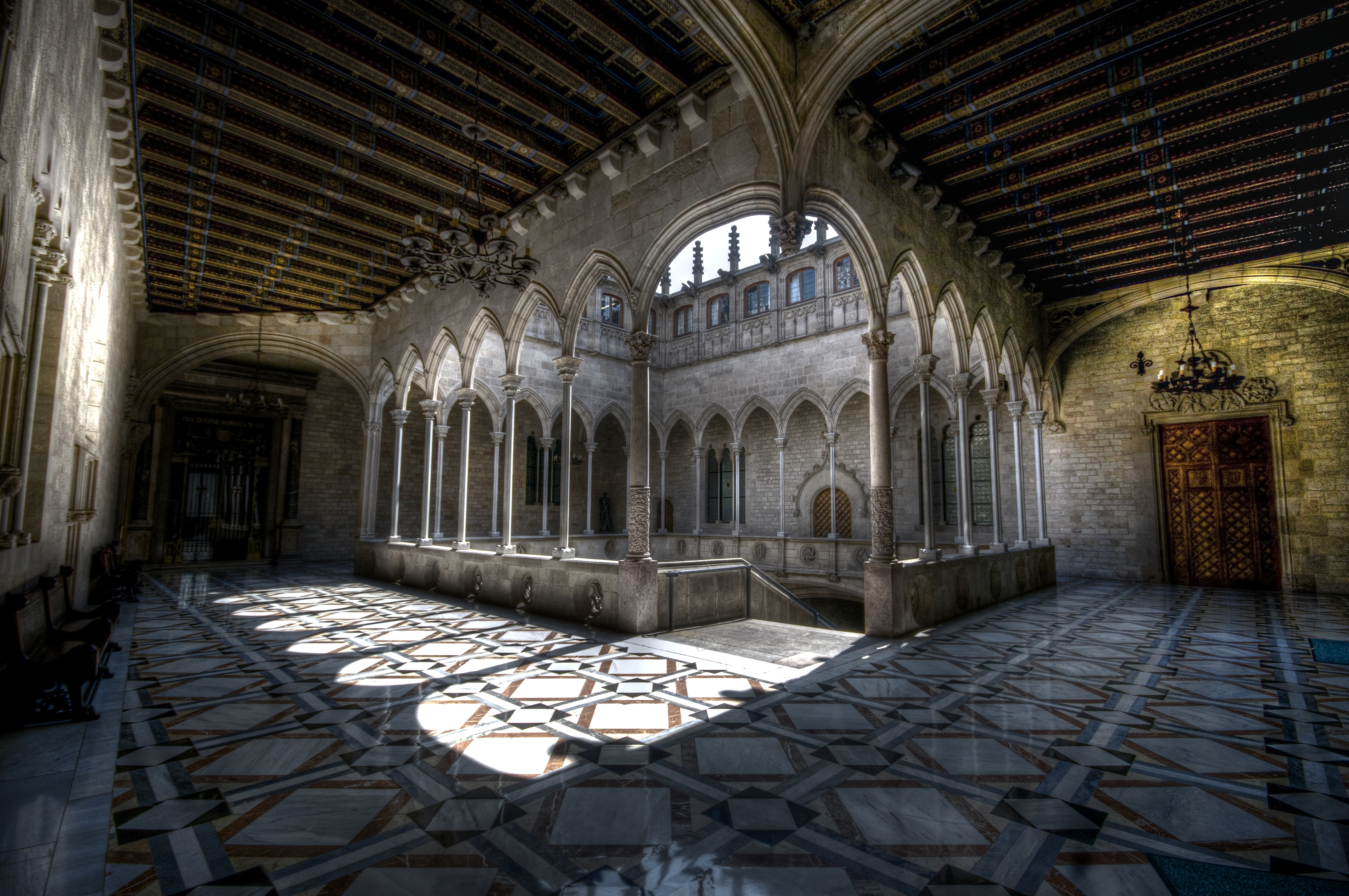 The Palau de la Generalitat houses the offices of the Presidency of the Generalitat de Catalunya